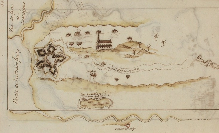 Plan of the western part of the Chignecto Isthmus showing Beauséjour Fort and the surrounding area